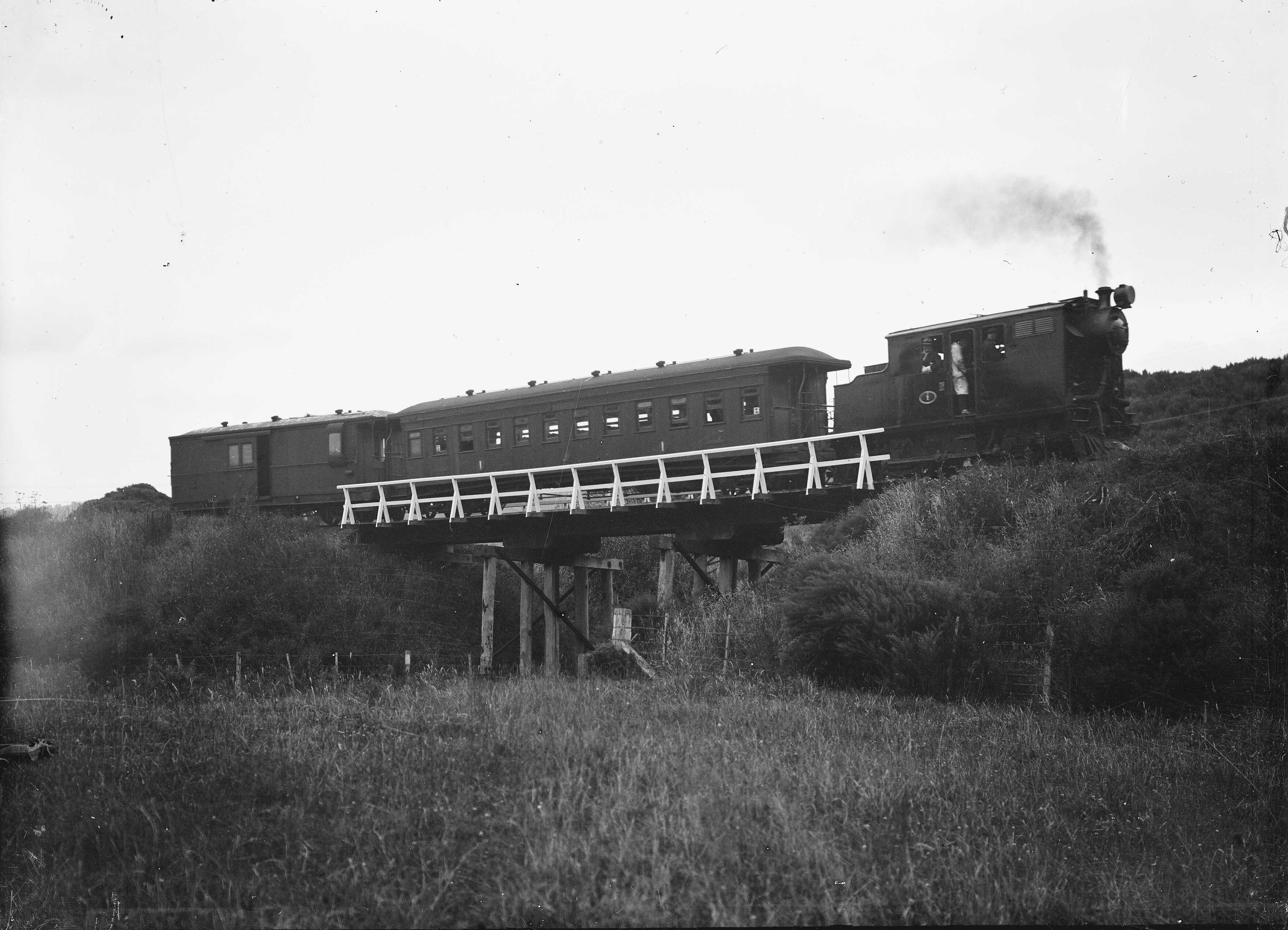 Trial run of Clayton D class locomotive, no 1, 0-4-0T in 1929. Photograph taken in Silverstream by Albert Percy Godber.